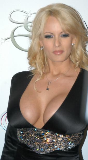 Stormy Daniels, American porn actress. Taken at Ron Jeremy's birthday party, 2007